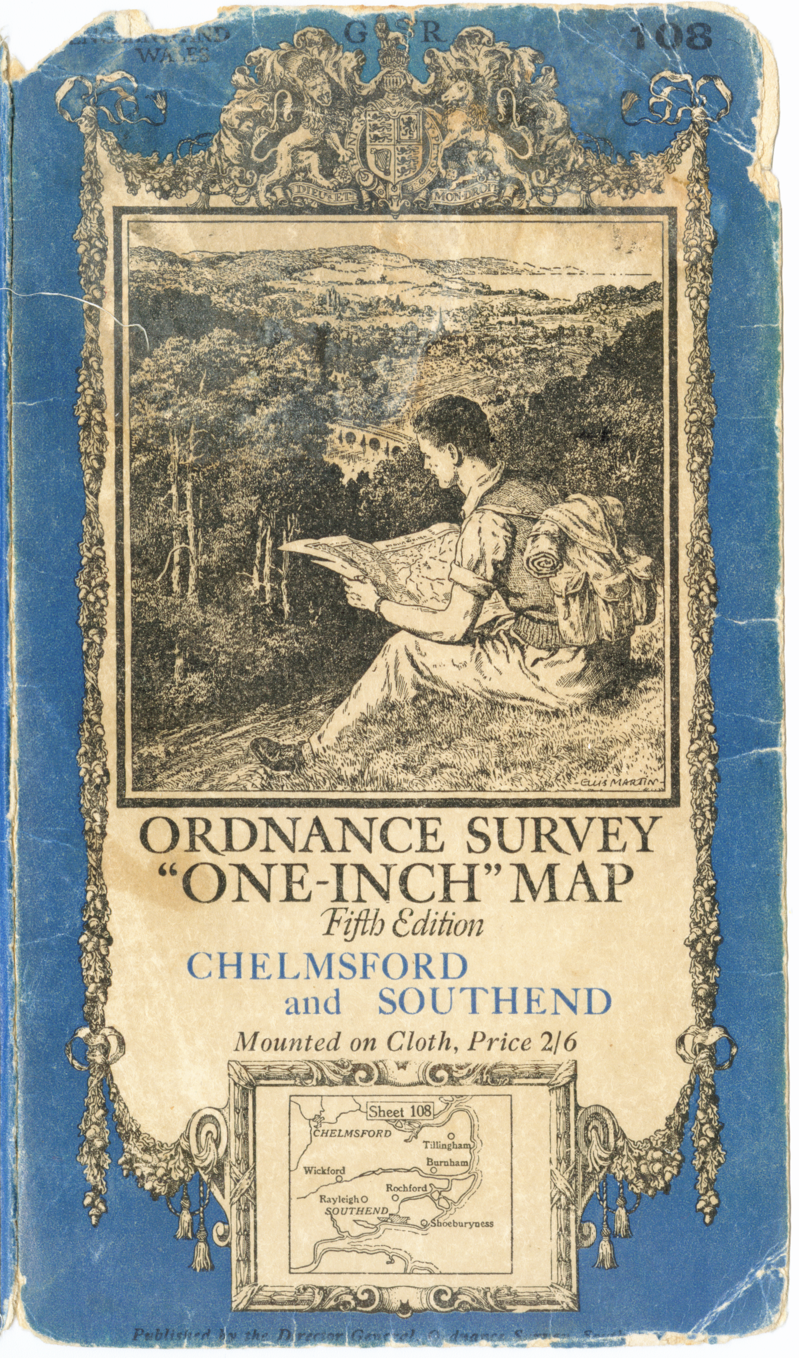 Scan of the cover of the 5th series OS map Chelmsford and Southend sheet 108. Art by Ellis Martin